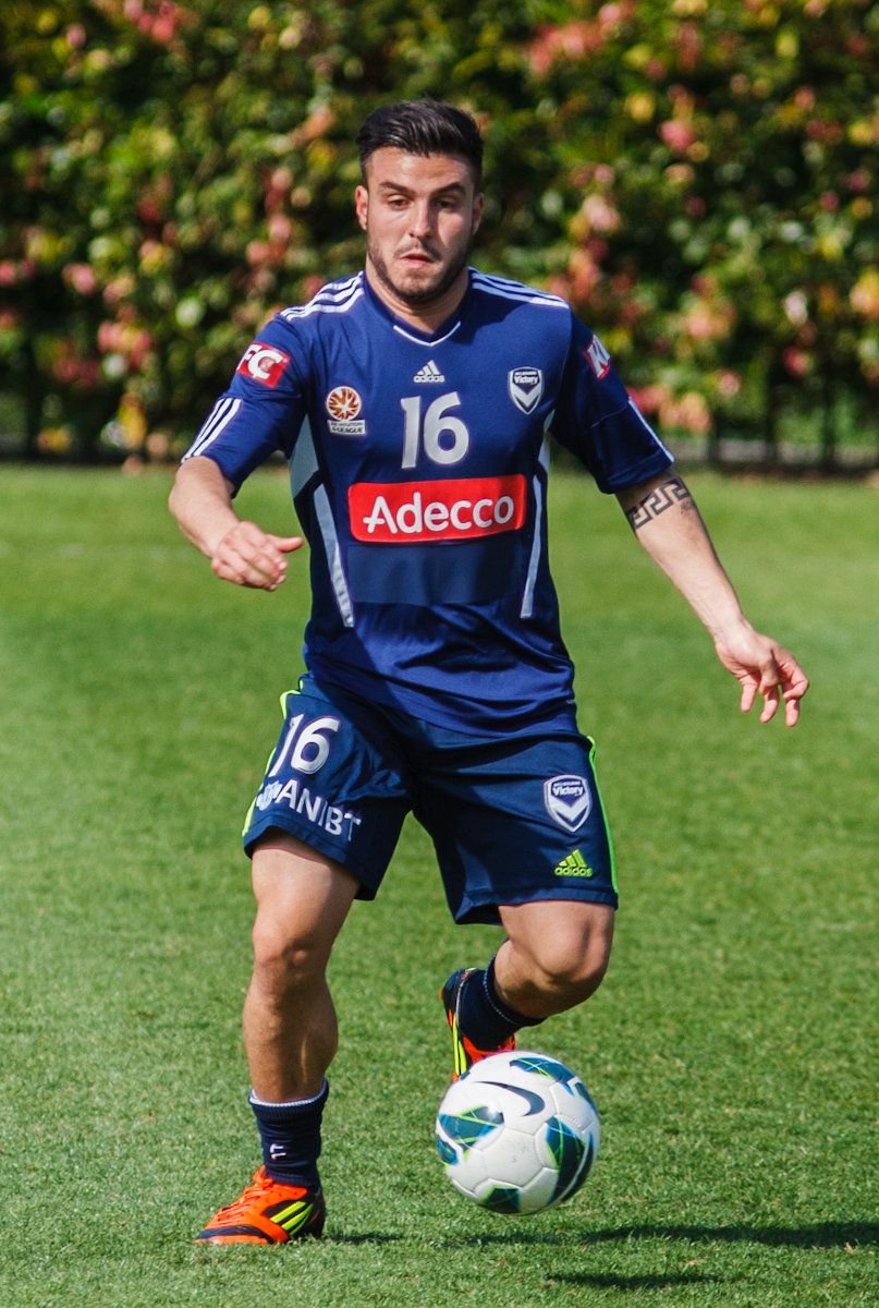 Theo Markelis warming up for Melbourne Victory before a pre season game against the Central Coast Mariners in 2012.